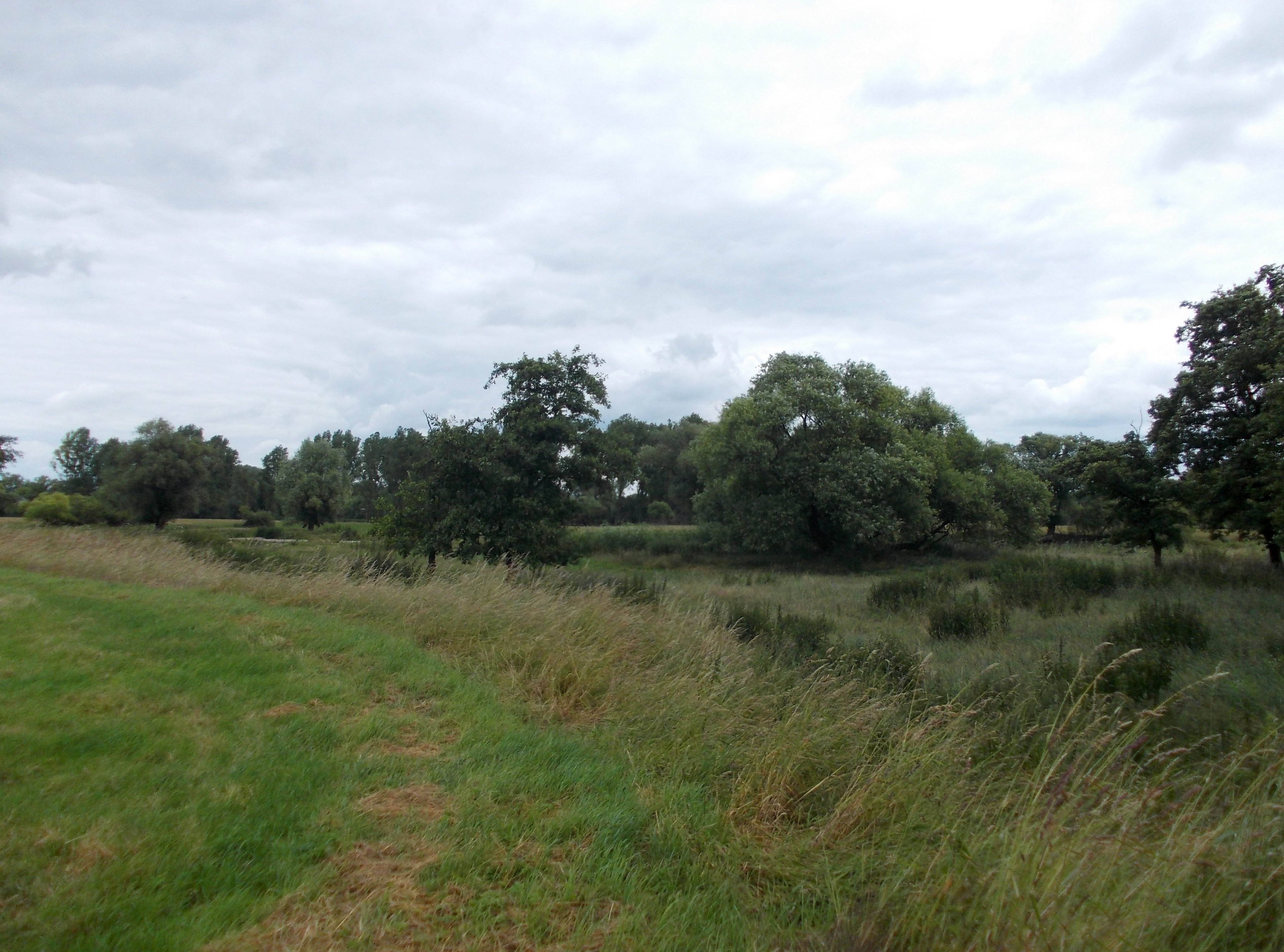 In the valley of the Mulde river near Zschepplin (Nordsachsen district, Saxony), nature reserve Vereinigte Mulde Eilenburg-Bad Düben